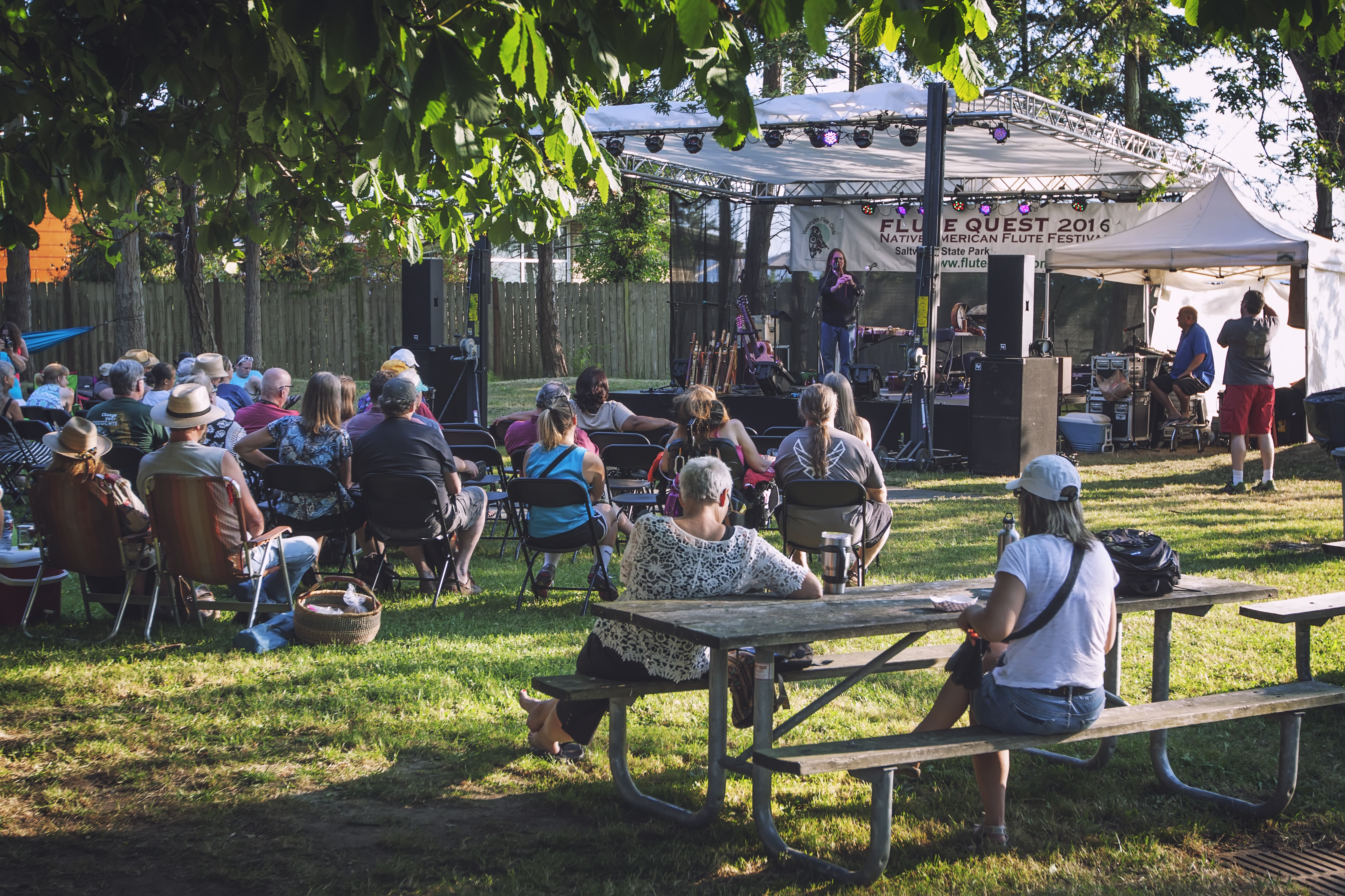 Flute Quest 2016 — Native American Flute Festival — August 19-21, 2016 — Salt Water State Park, Des Moines, WA.